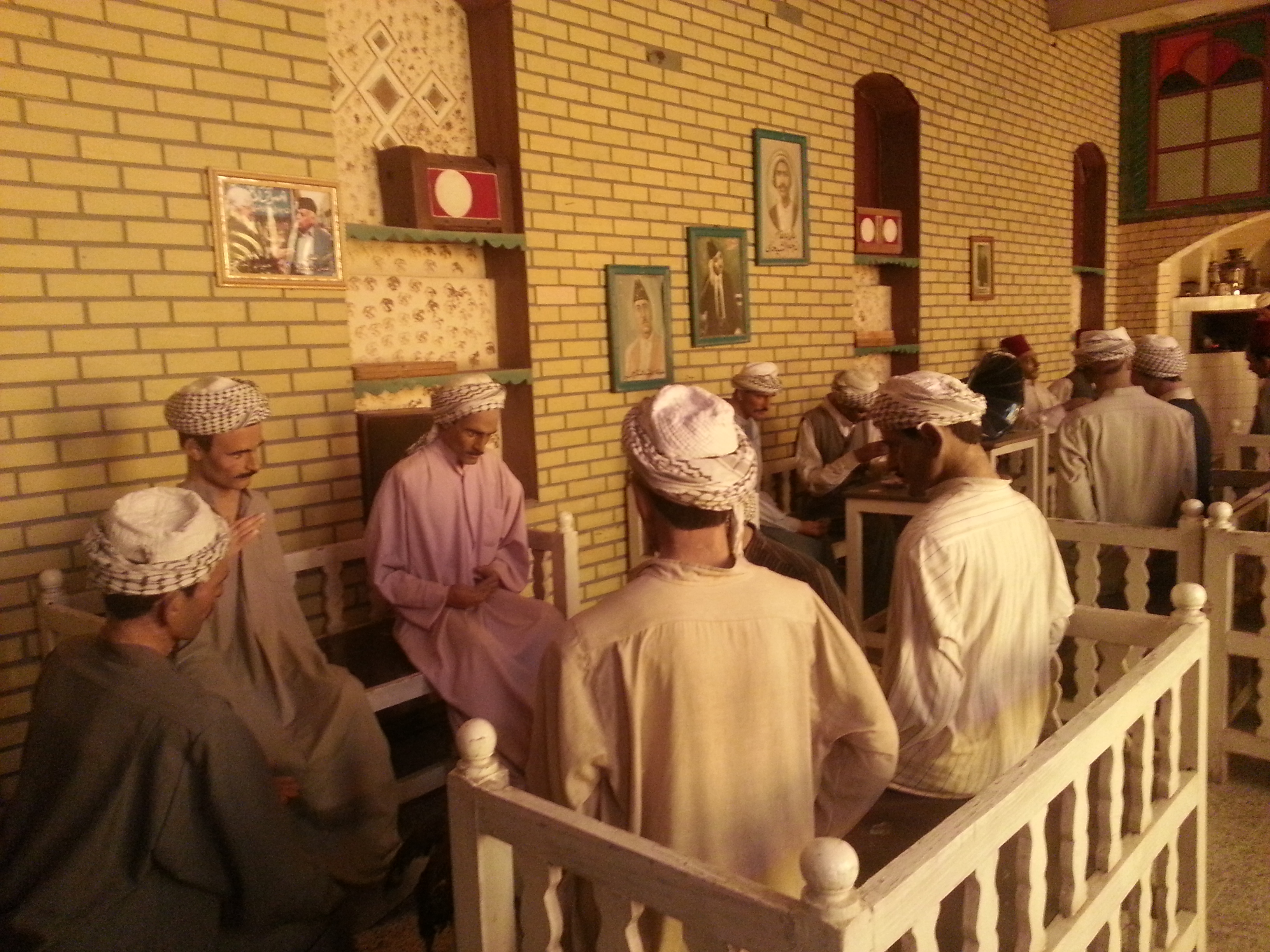 Photos from the Al Baghdadi Museum